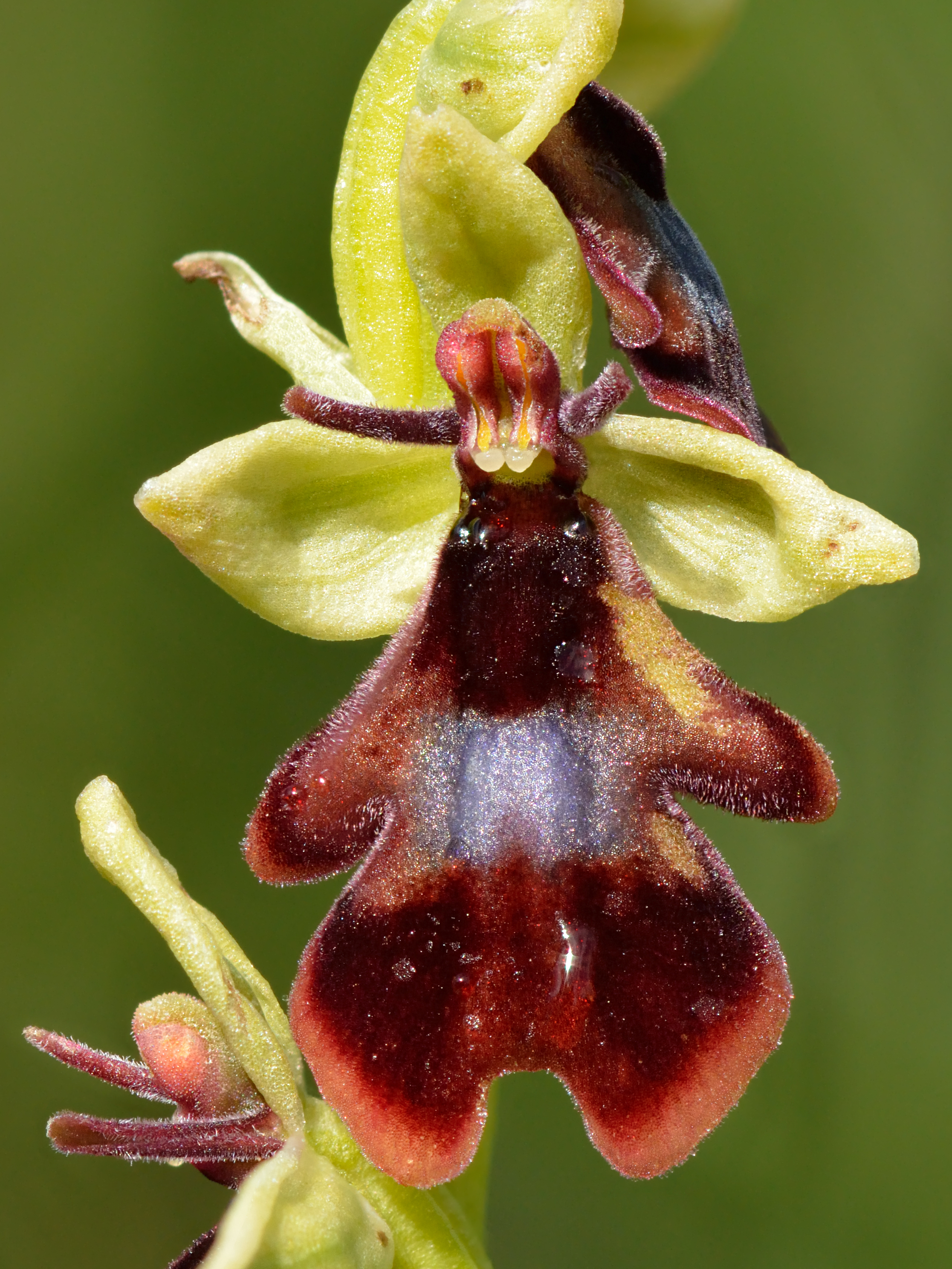 Fly orchid